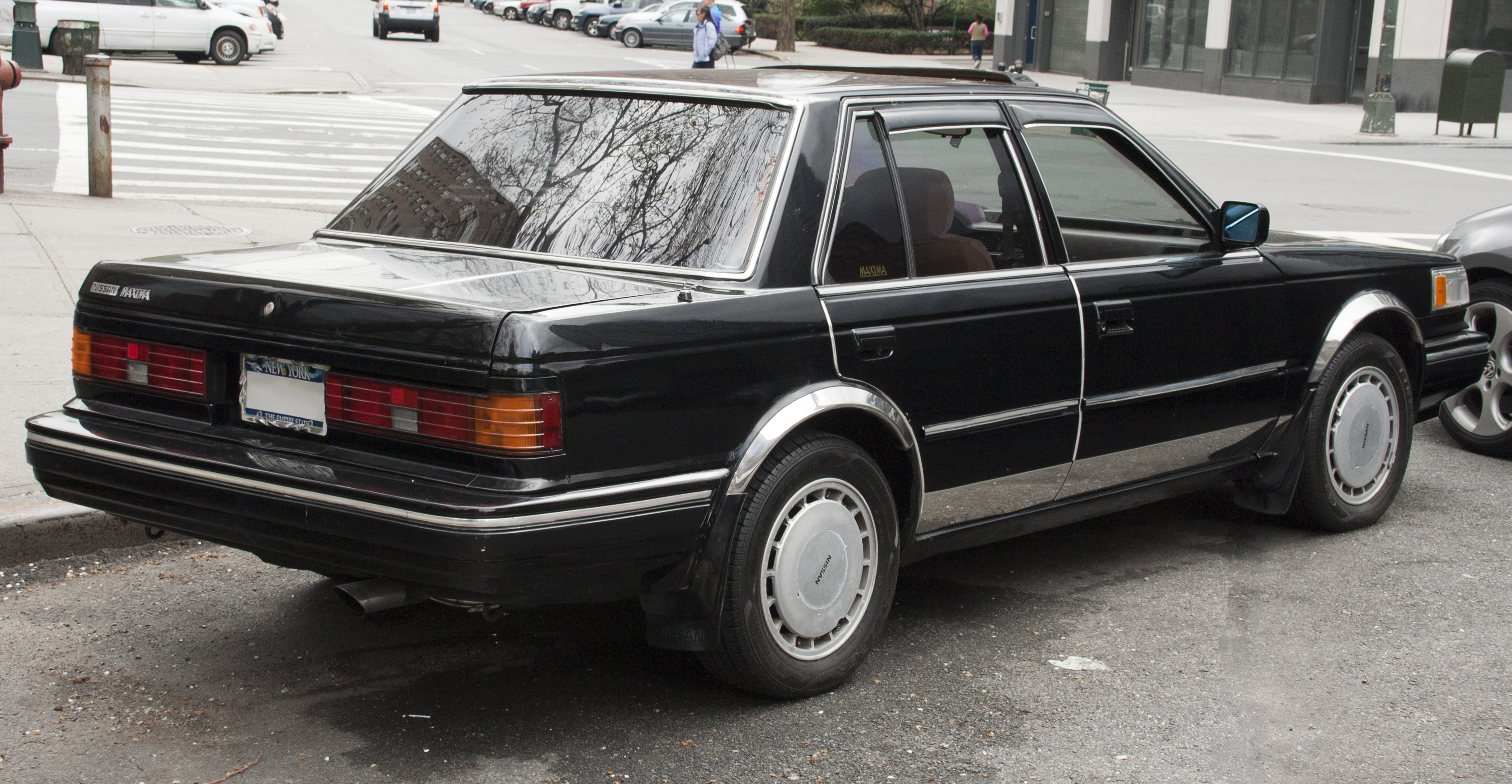 Rear view of 1987 Nissan Maxima